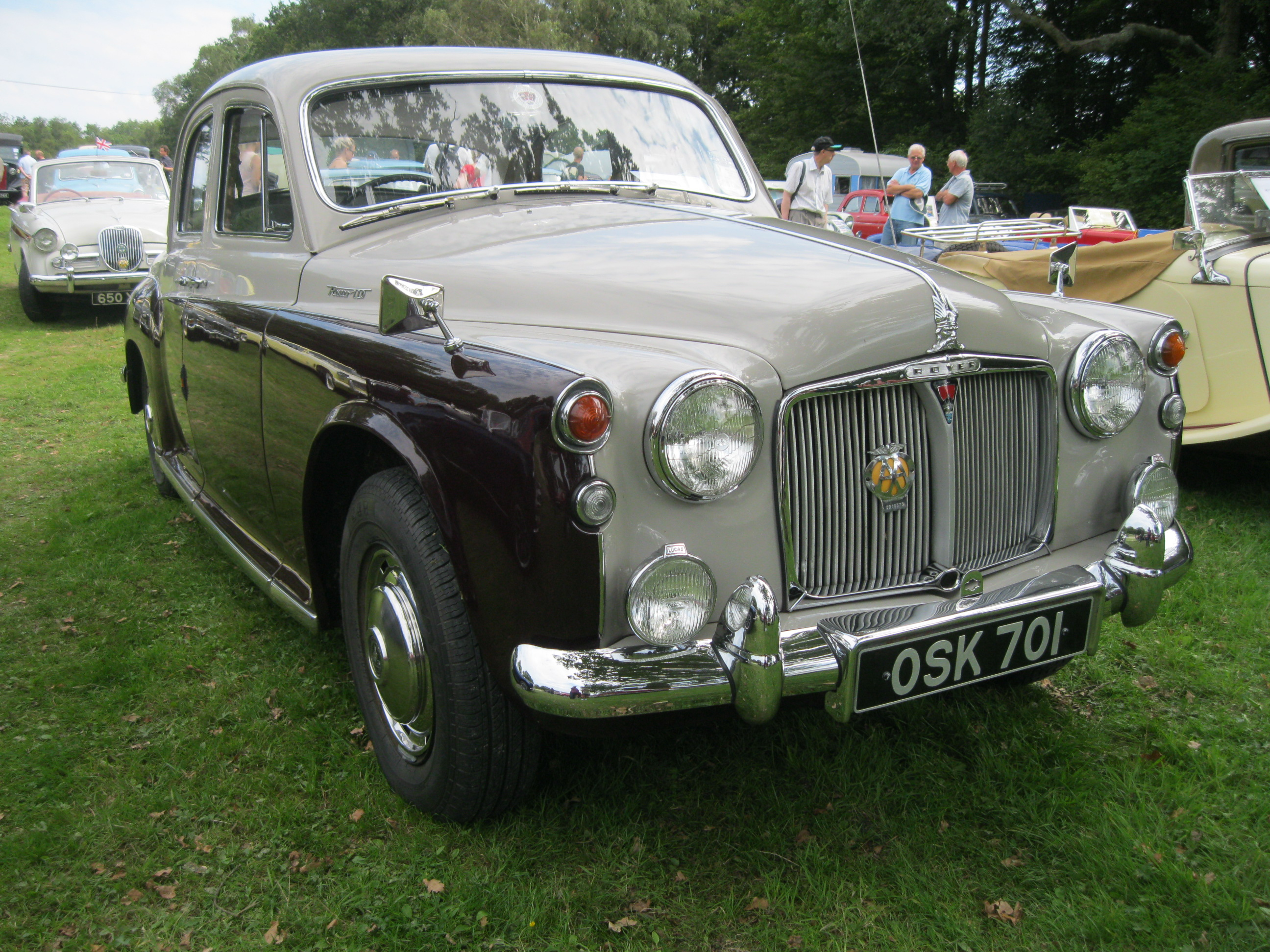 Great two-tone example of a 1950s British Bank Manager's & Doctor's saloon - spotted at the Bluebell Railway's Transport Weekend at Horsted Keynes Station in August 2012. (DVLA) first registered 12 October 1962, 2625 cc